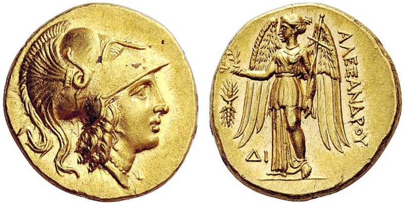 Gold stater of Alexander the Great (17mm, 8.59 g, 3h). Memphis mint, circa 336-323 BC. Head of Athena right, wearing crested Corinthian helmet decorated with griffin, and necklace / AΛEΞANΔP-OY, Nike standing left, holding wreath in extended right hand and cradling stylis in left arm; kerykeion below right wing.